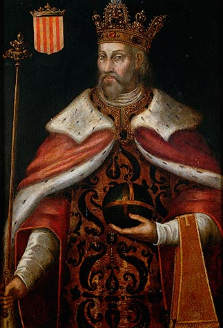 Retrospective portrait of Alfonso IV of Aragon (1299-1336) or Peter III of Aragon (1239-1285)